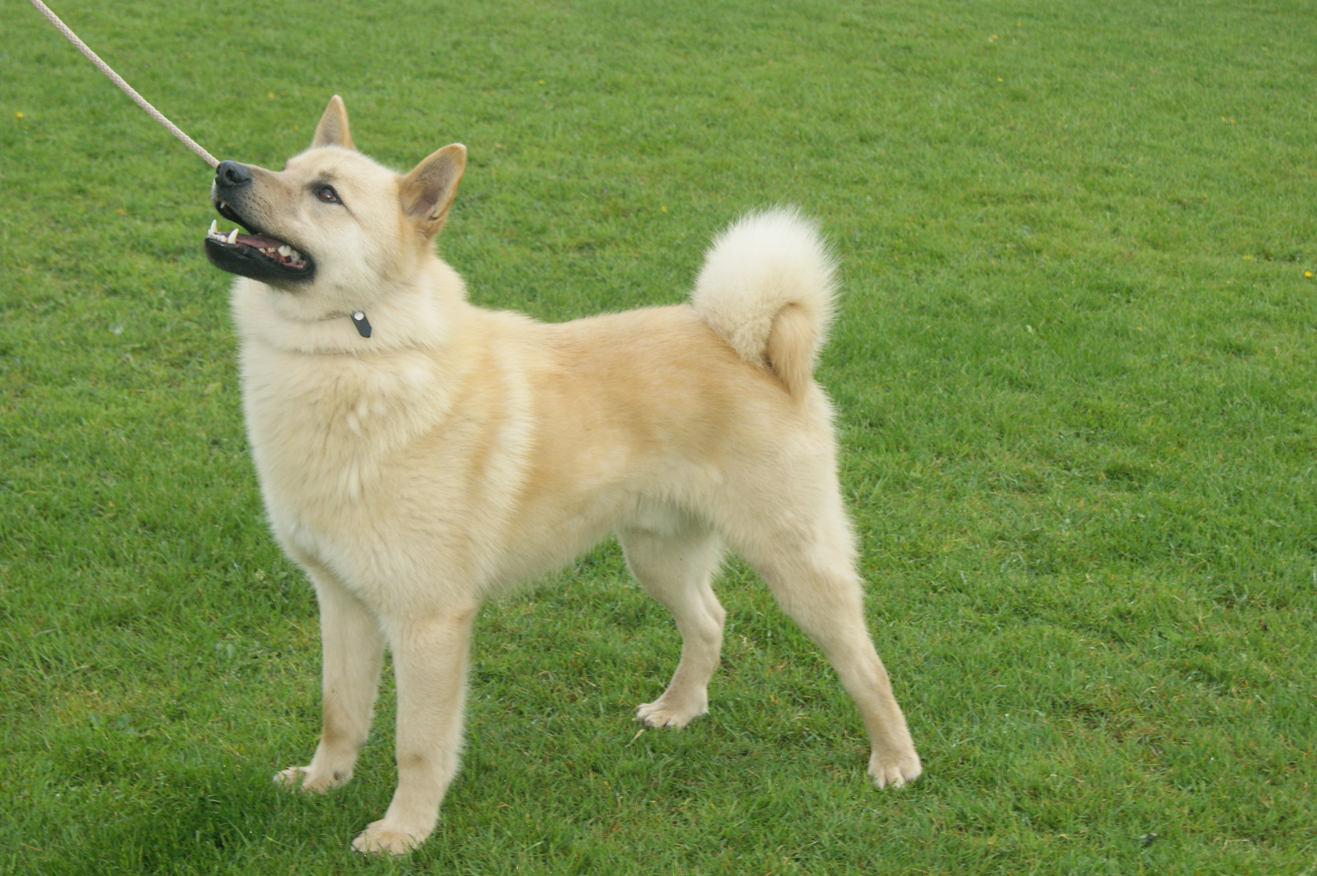 Hällefors dog Hades, owner Per-Ola Anderss from Mosshult, Sweden.